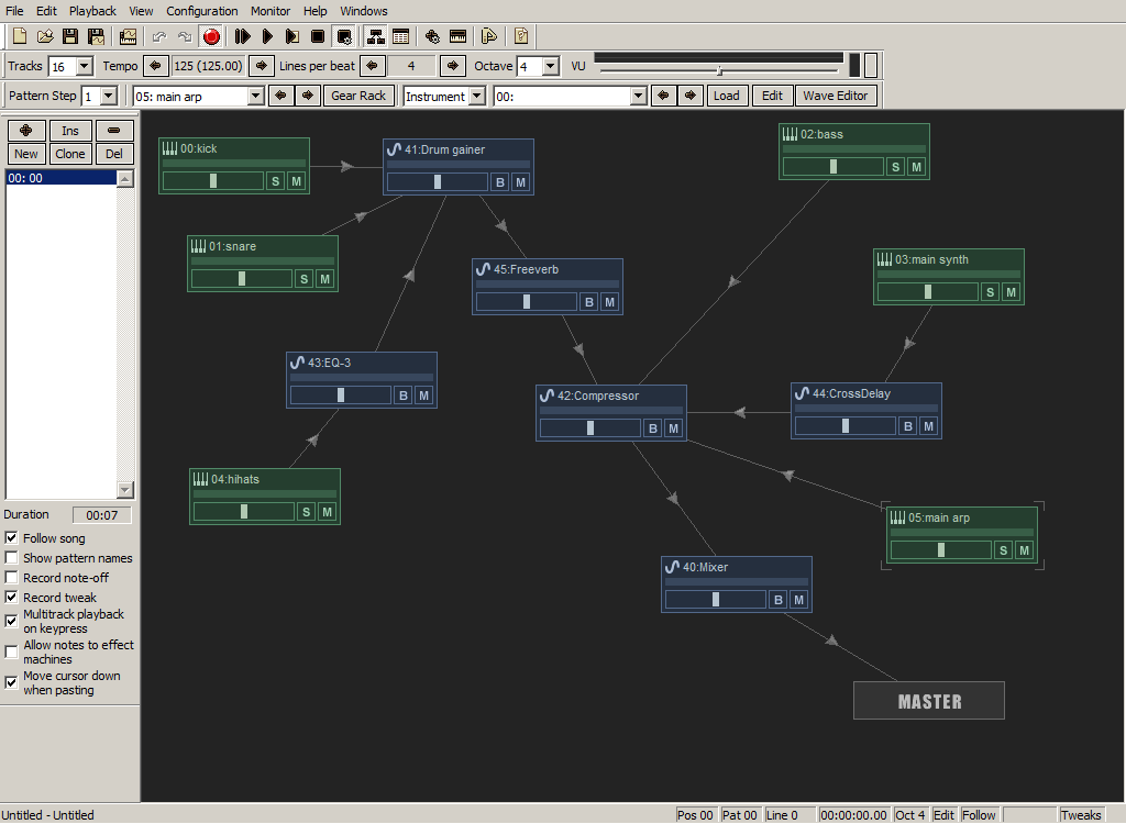 Psycle 1.12.2 (beta) (Open source/GPL) music software main screen.